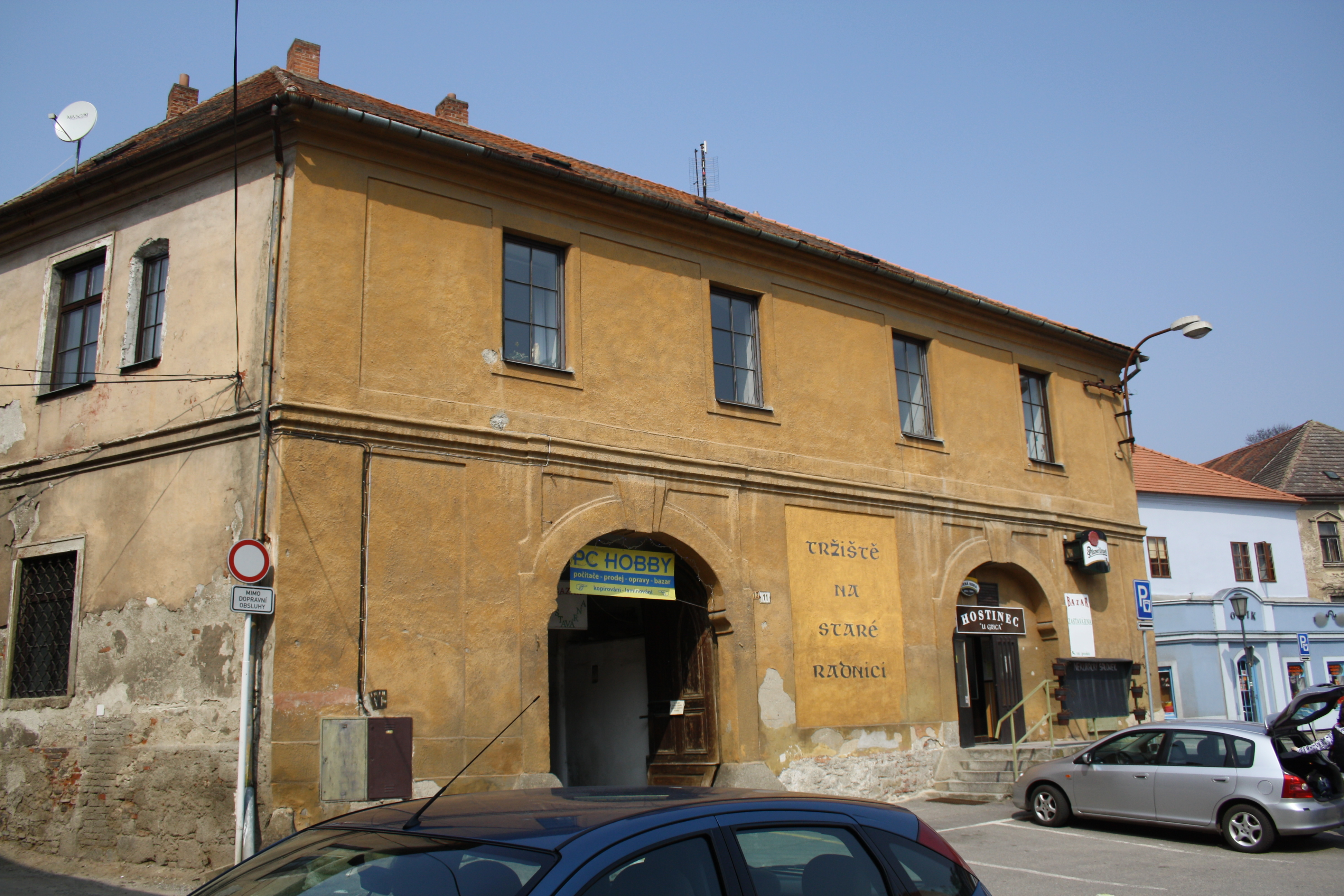 Former inn U rakouského císaře (At austria emperor) in Třebíč, Czech Republic.jpg